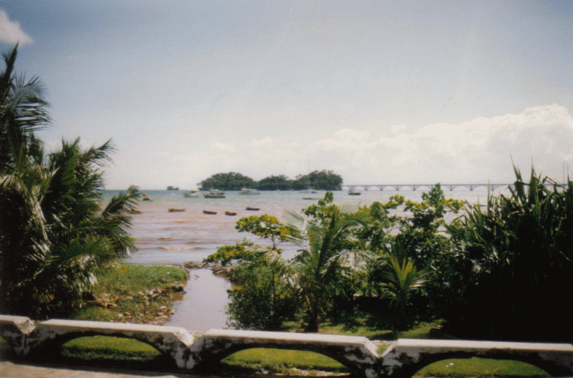 Photo made by myself in 1997 of The Samana Bay, Dominican Republic